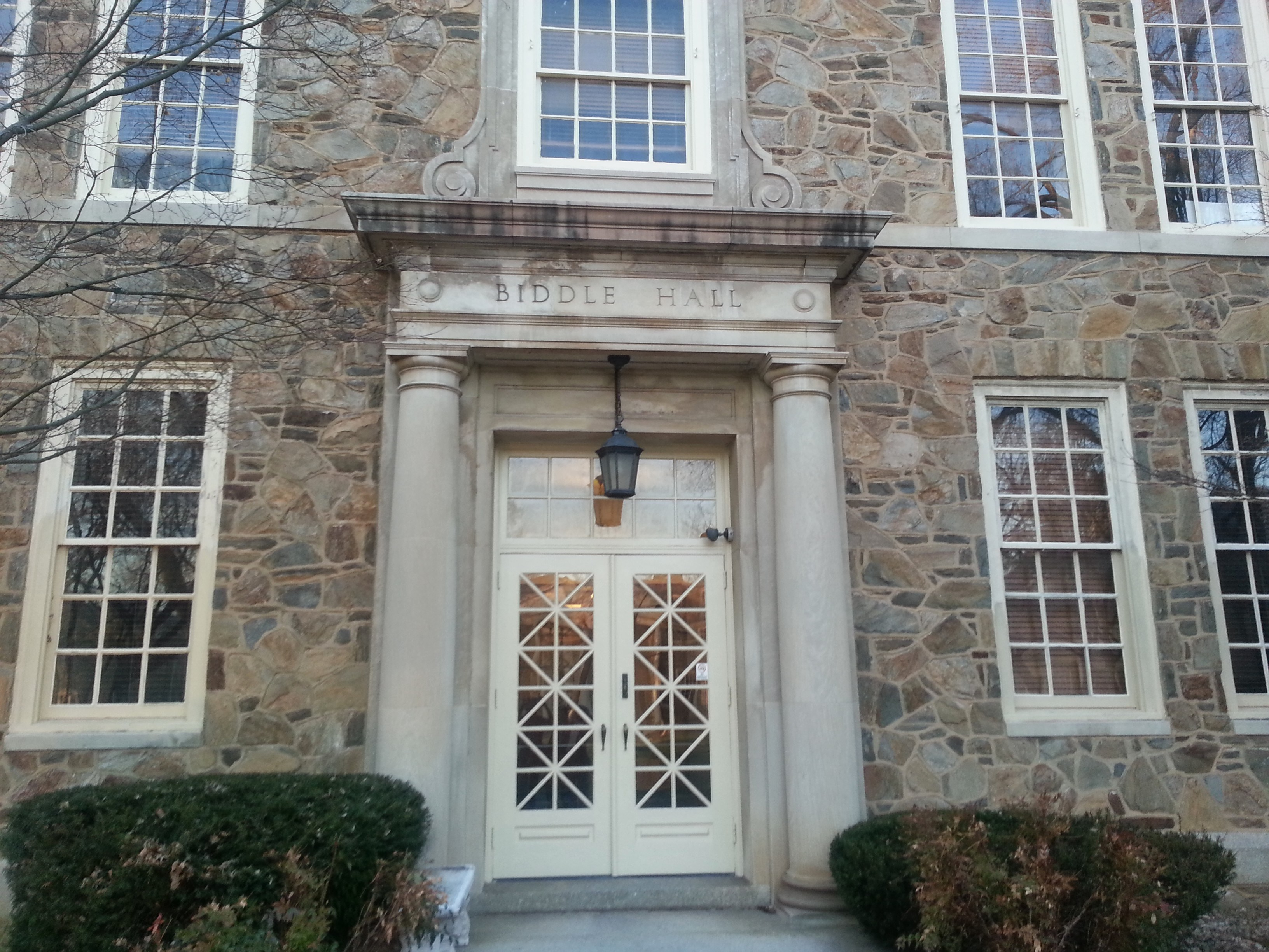 Biddle Hall, on the Historic Quad